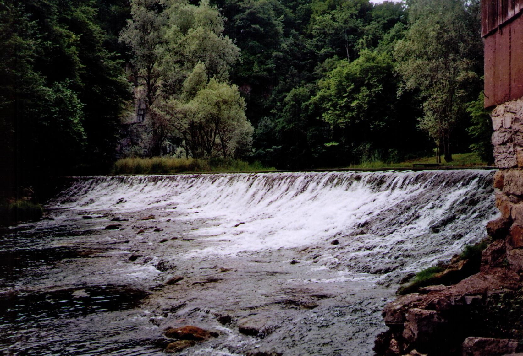 Weir at the Krupa spring (Krupa, Bela krajina region)